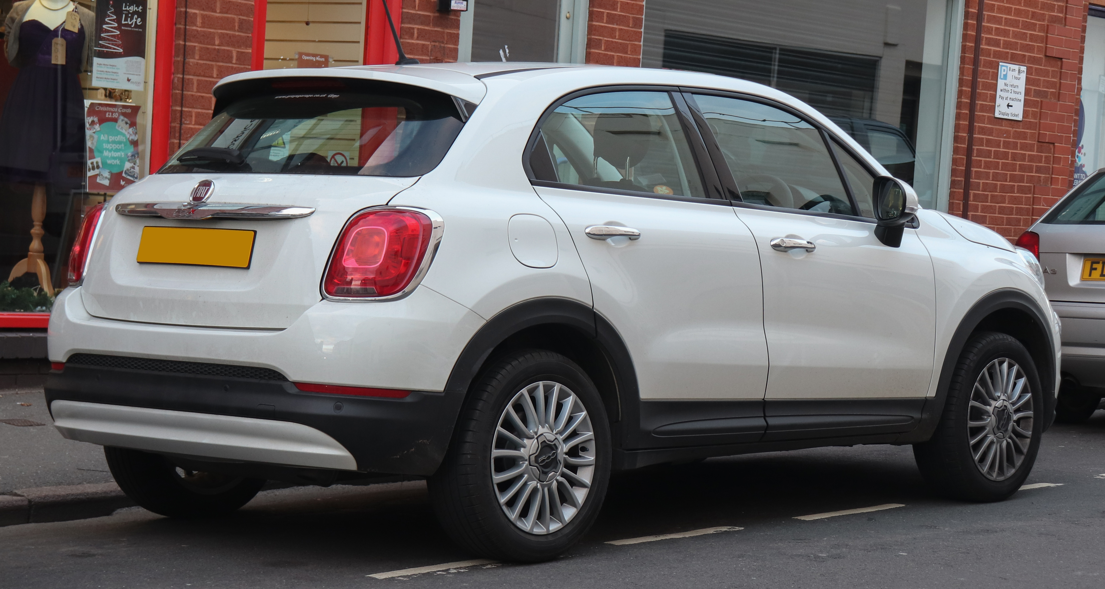 2017 Fiat 500X POP Star Multiair 1.4 Rear Taken in Leamington Spa